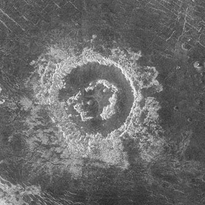 This 54-km (32-mi) diameter crater is the size at which craters on Venus begin to possess peak-rings instead of a single central peak. The floor of Barton crater is flat and radar-dark, indicating possible infilling by lava flows sometime following the impact. Barton's central peak-ring is discontinuous and appears to have been disrupted or separated during or following the cratering process. The name Barton has been proposed by the Magellan Science Team, after Clara Barton, founder of the U. S. Red Cross; the name is tentative pending approval by the IAU.